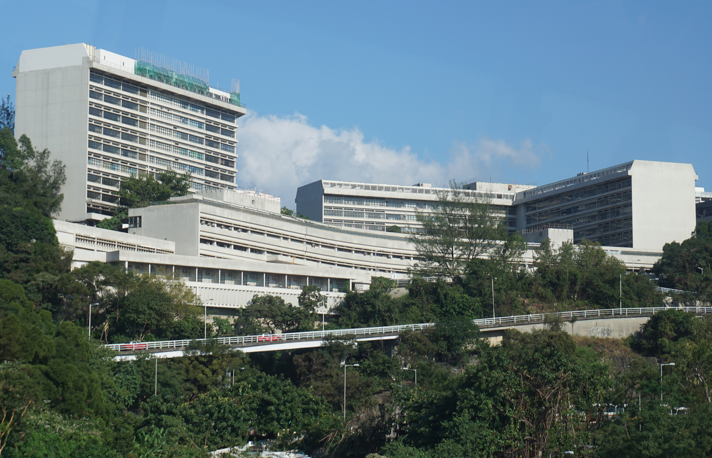 Kwai Chung Hospital in Lai King, Hong Kong.